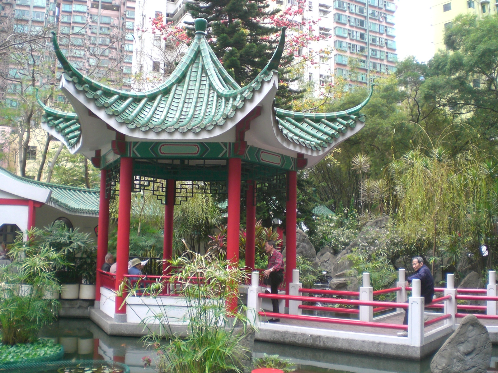 涼亭 @ 荷李活道公園, Hollywood Road Park, Sheung Wan, Hong Kong